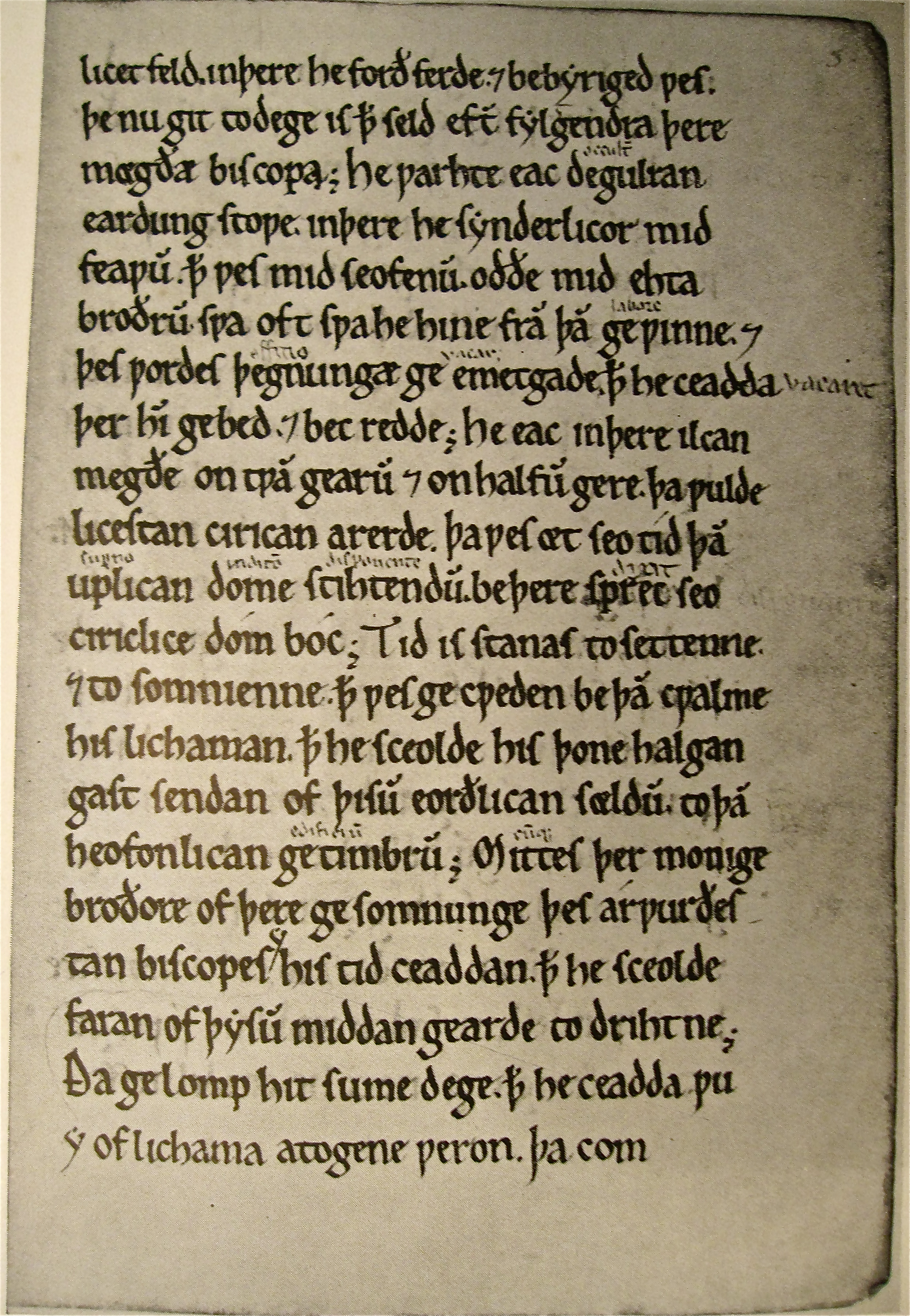 First item late copy of The old Englisch Homely on the life of St. Chad. Hatton MS 116, formally Junius 24 (10,5 X 7,5 inch). 1200AD Language: Old English. (MS given by H. Wanley, 1705.)